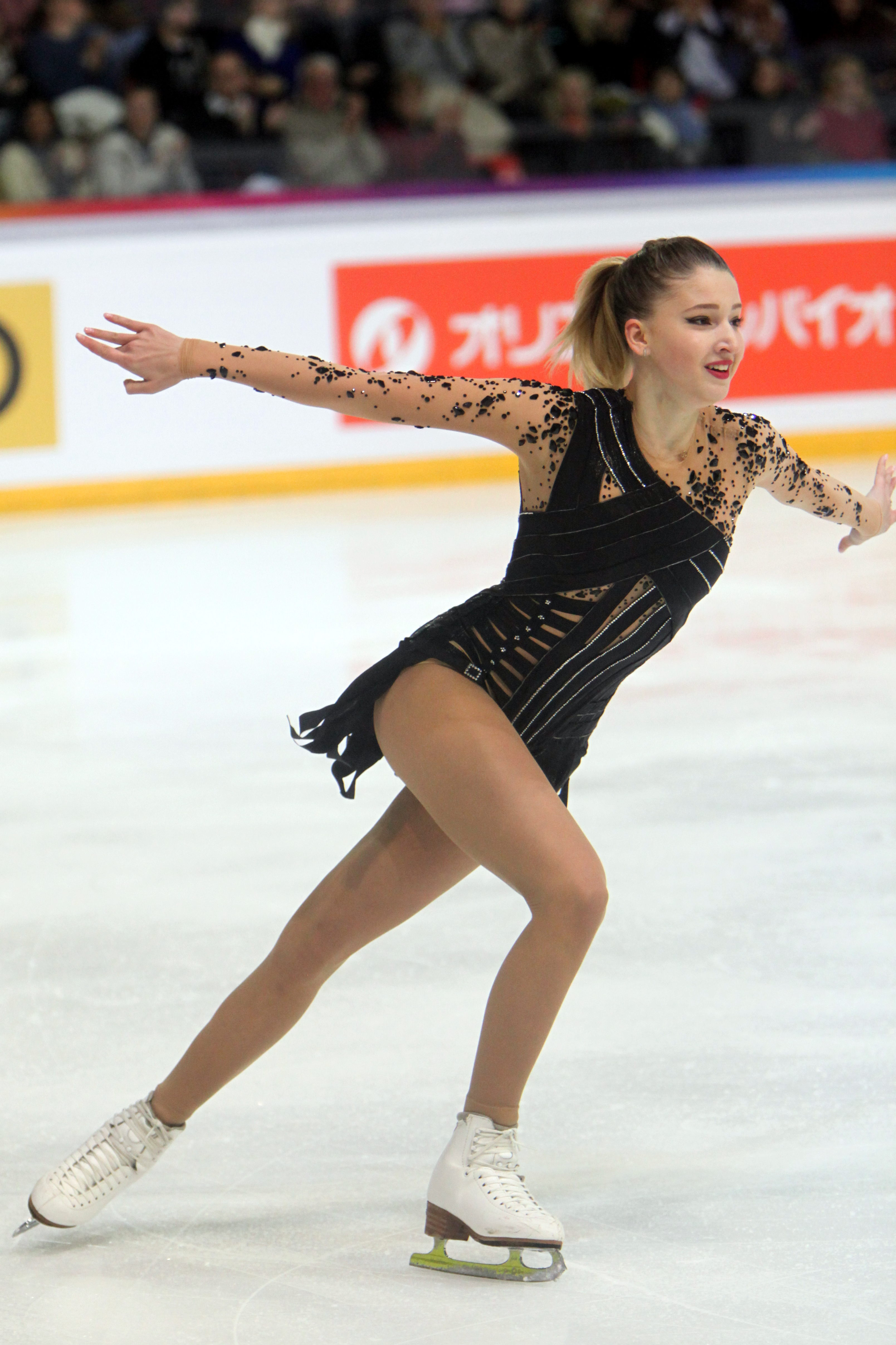 Maria Sotskova during the Ladies Free Skating at the Internationaux de France de Patinage 2018.